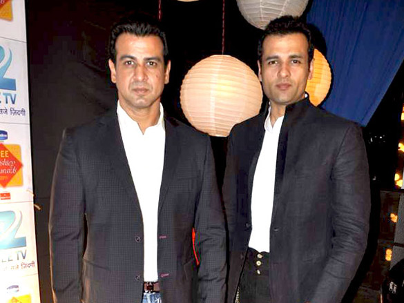 Ronit Roy and his brother Rohit Roy attending the Zee Rishtey Awards 2011 both wearing black suits.